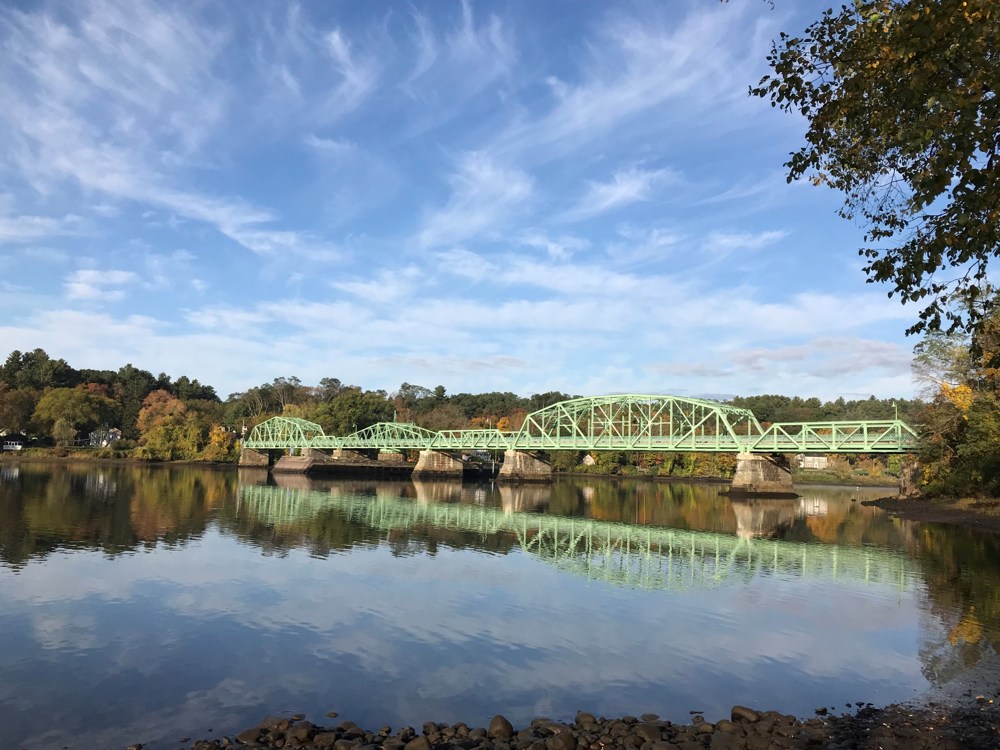 Rocks Village Bridge over the Merrimack River, West Newbury, 2019